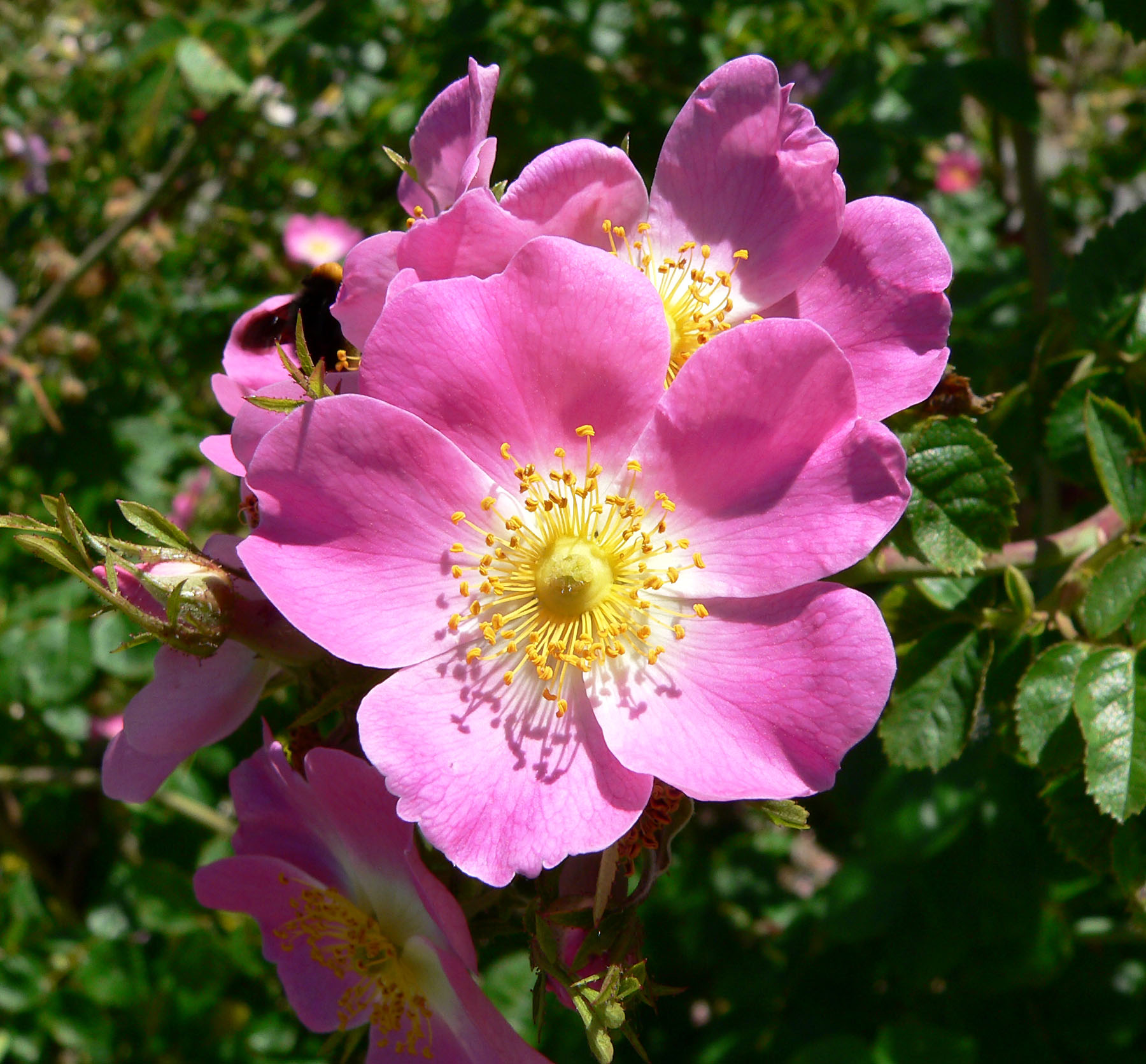 Rosa rubiginosa at the San Jose Heritage Rose Garden, San Jose, California